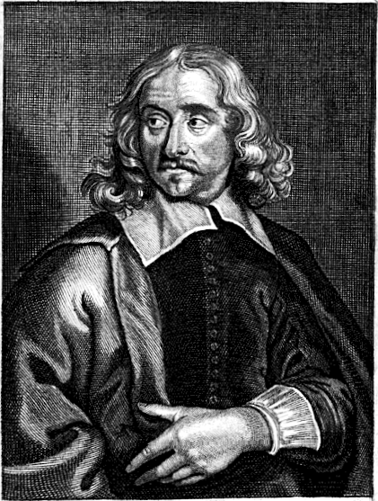 Portrait of Adriaen van Utrecht